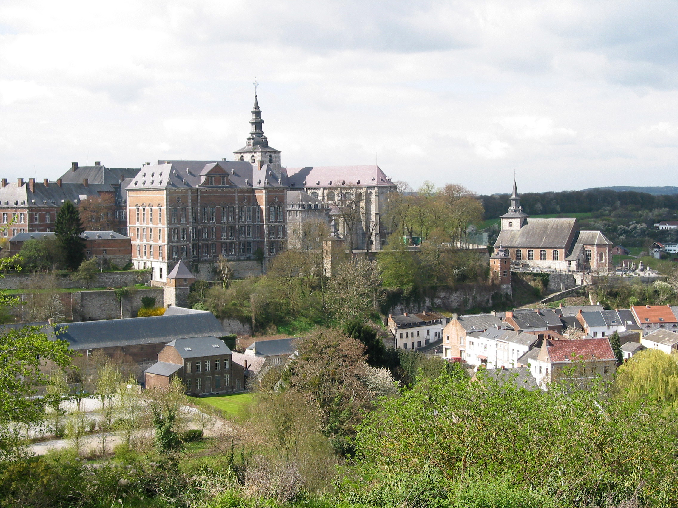 Floreffe (Belgium), the Abbey (XVIIIth century), the church of N-D du Rosaire (XVI/XVIIIth century) and the city.